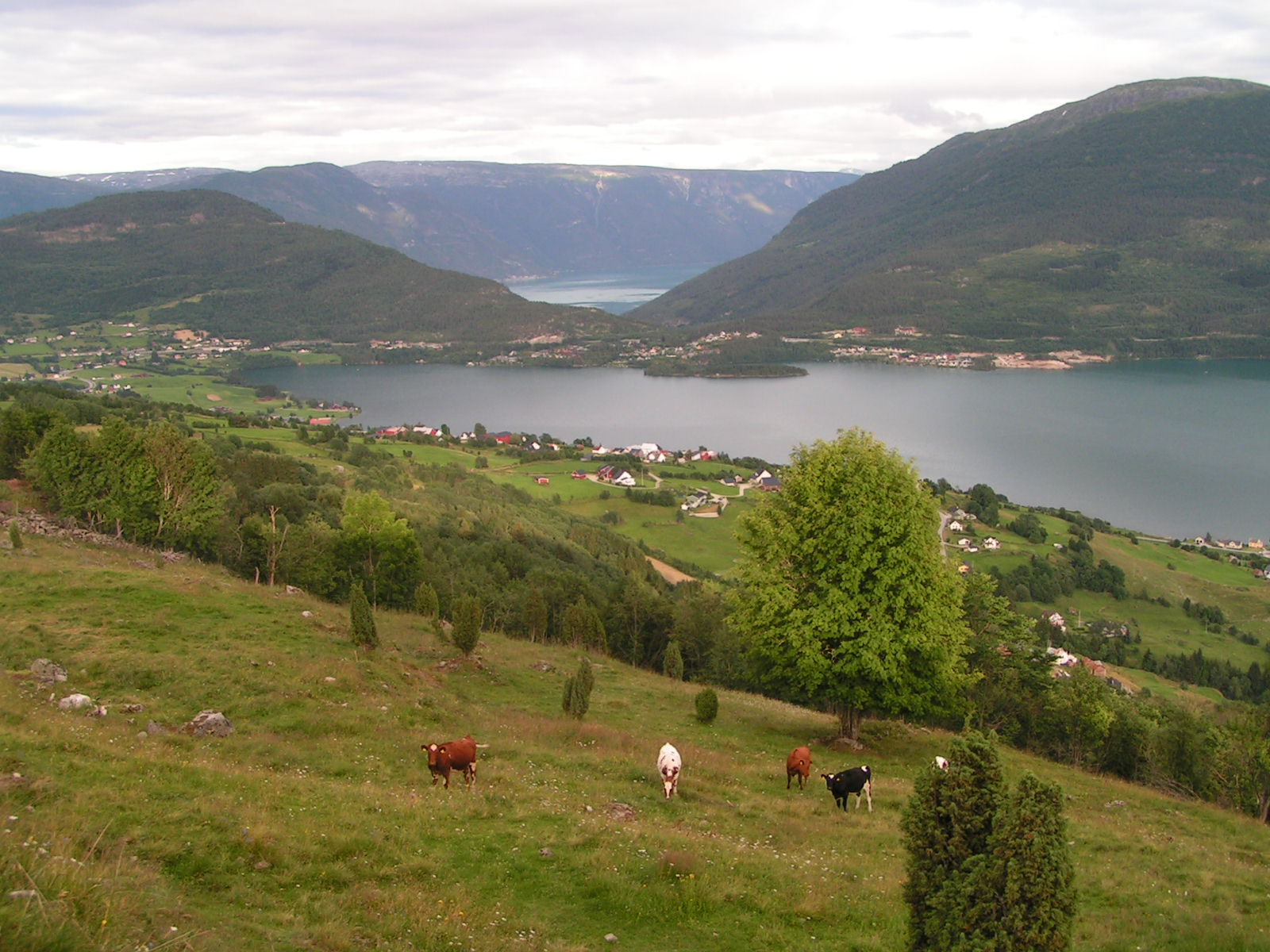 The lake Hafslovatnet with the fjord Sognefjorden in the background. Hafslovatnet is in the Luster municipality in Sogn og Fjordane county in Norway.